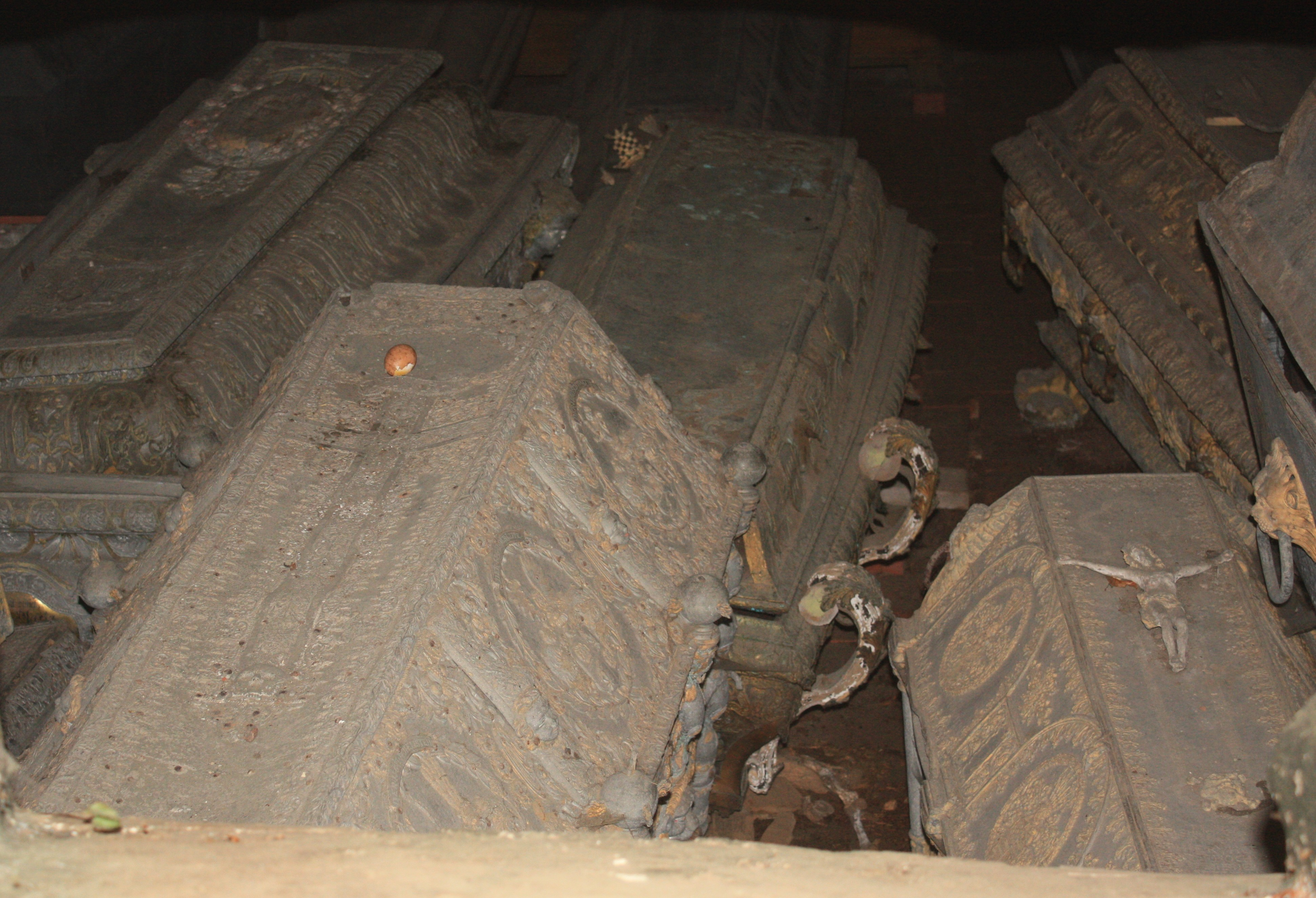 View into the von Putbus family tomb in the Maria-Magdalena church at Vilmnitz